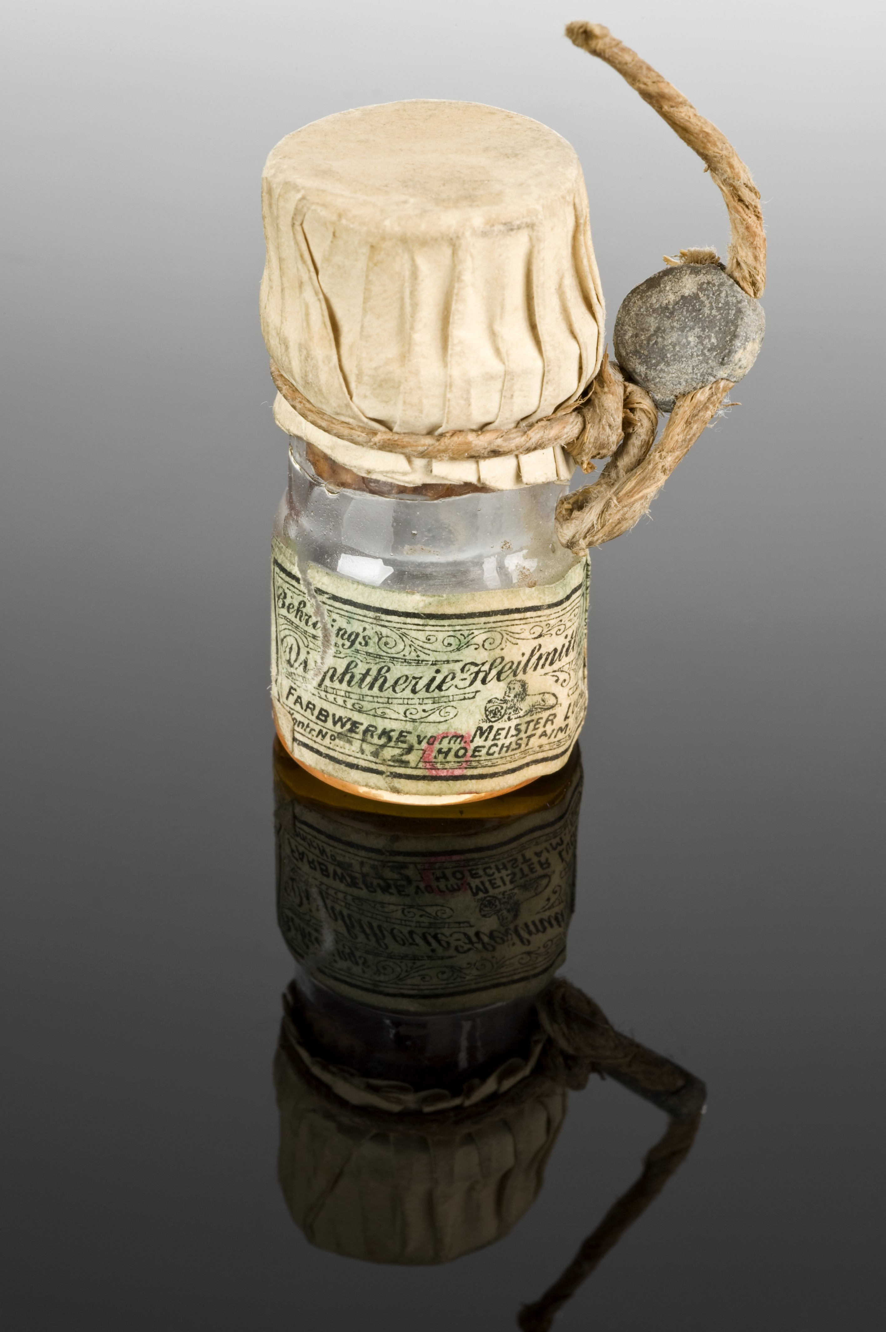 This is a bottle of diphtheria antitoxin developed by Emil Adolf Behring (1854-1917) in 1891. He refined this treatment again in 1913. This bottle of “Behring’s diphtheria remedy” was taken from a German battleship during the First World War, the first major conflict where more troops died from their wounds rather than disease. This was partly due to vaccination. maker: Farbwerke vorm Meister Lucius und Brüning Place made: Höchst, Darmstadt, Hesse, Germany Wellcome Images Keywords: Vaccination; antitoxin; Diphtheria; bottle